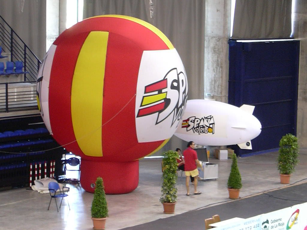 Promotion of volleyball in Spain during a match of the national team.